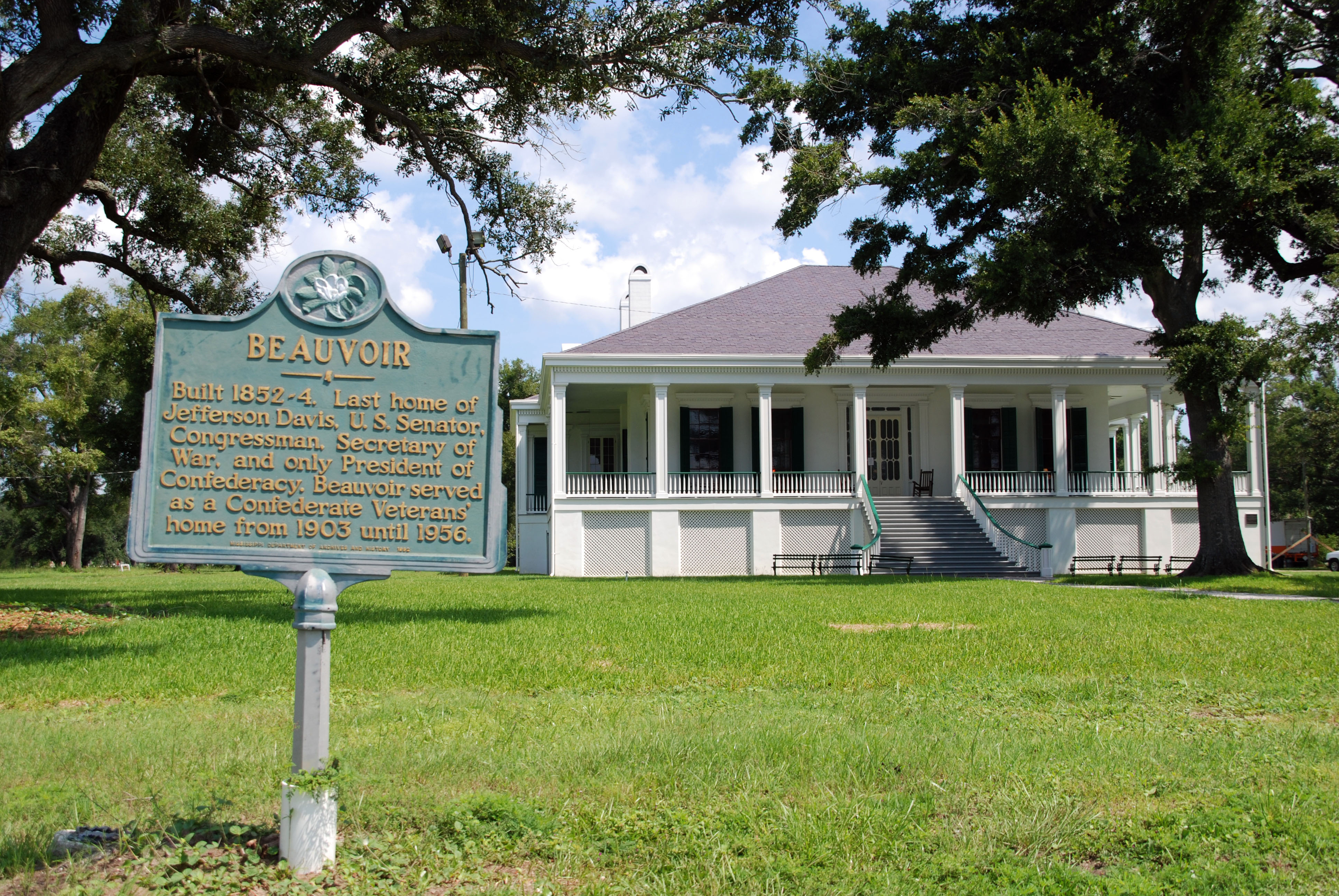 Beauvoir, MS, August 14, 2008 -- Beauvoir, the last home of Jefferson Davis, held its re dedication ceremony in June 2008 and is now open to the public again after extensive restoration. Beauvoir was severely damaged by Hurricane Katrina and FEMA helped fund the restoration. Jennifer Smits/FEMA.